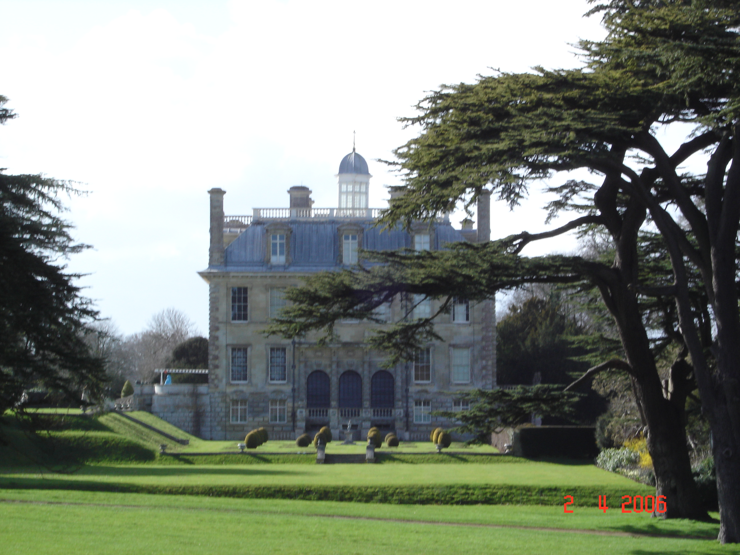 Kingston Lacy, Dorset